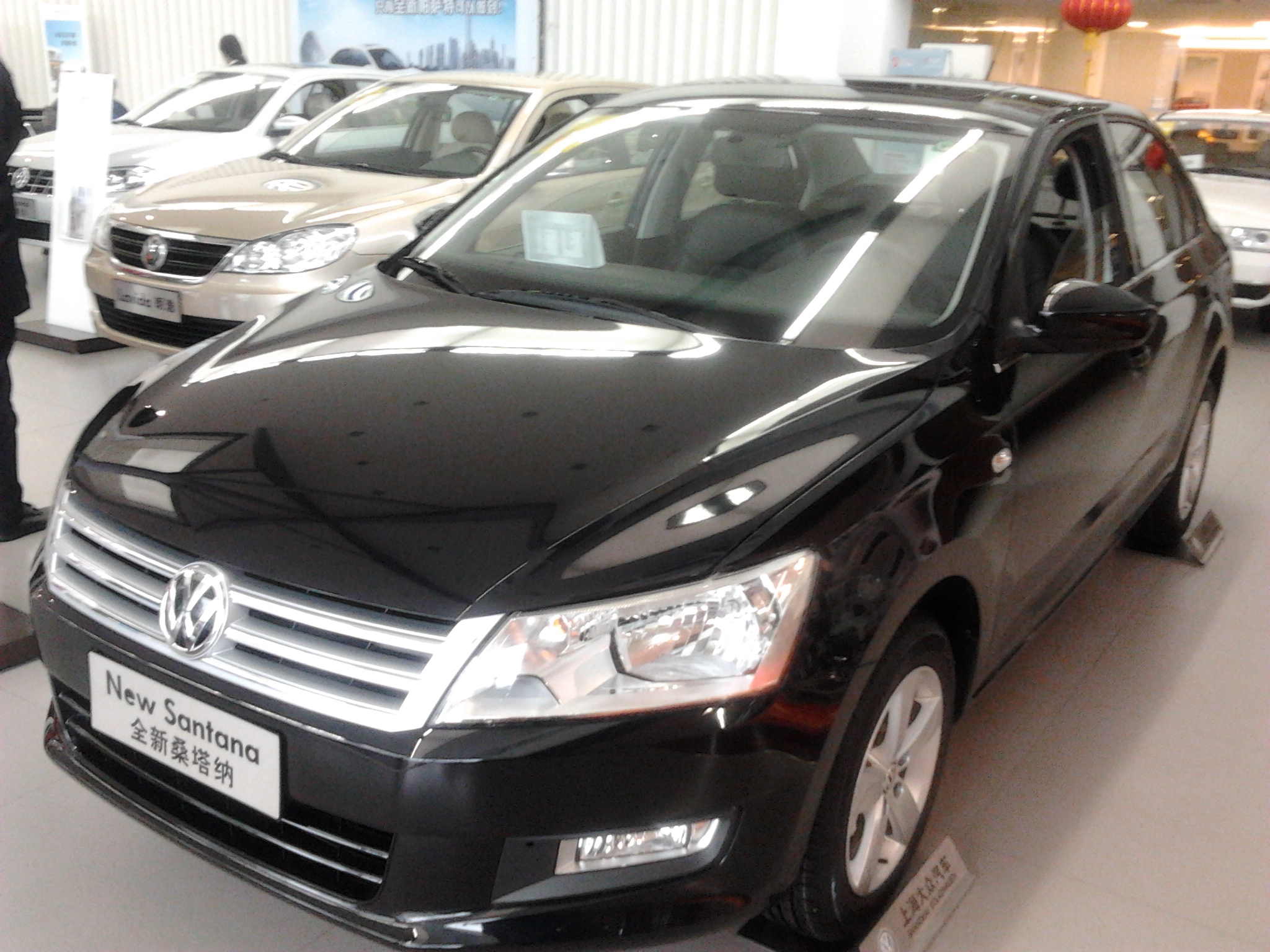 The new Santana